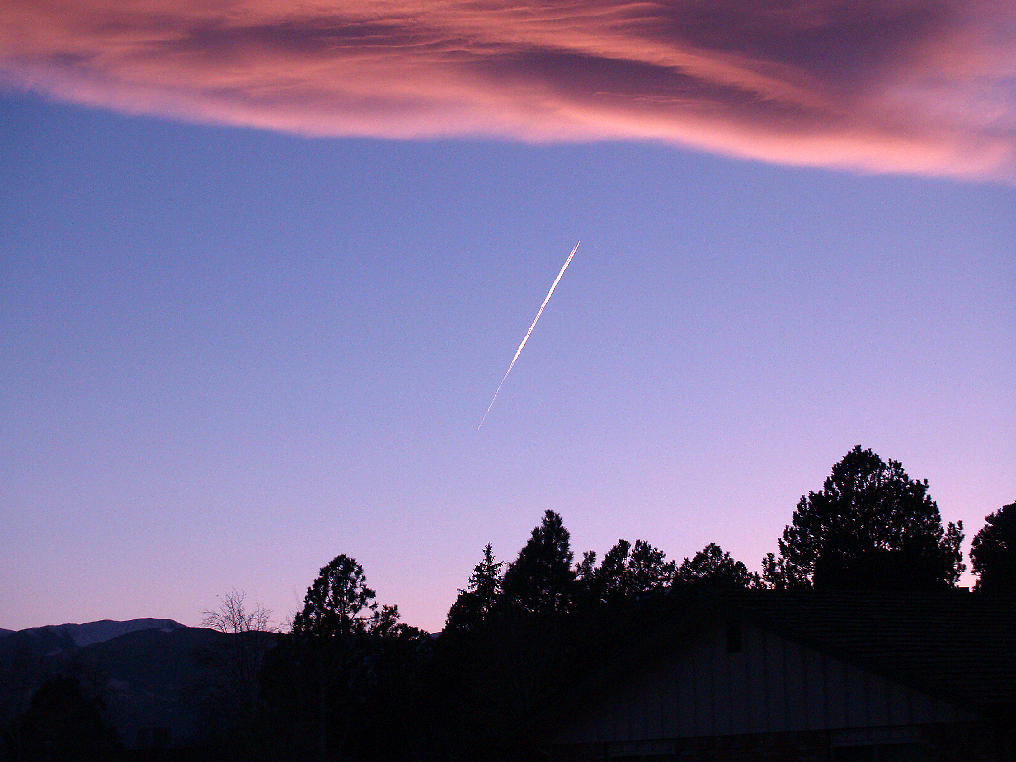 Jet exhaust in Colorado Springs.